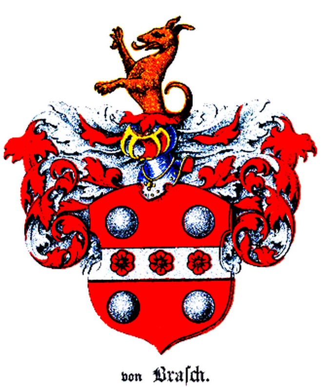 Coat of arms of Brasch family